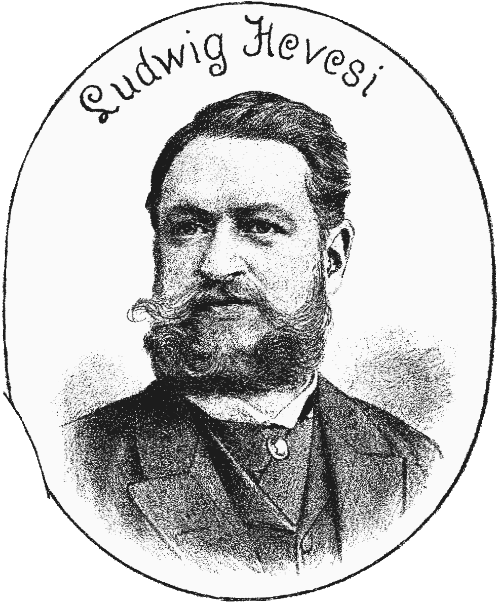 Ludwig Hevesi (1843-1910), Hungarian-German writer and journalist